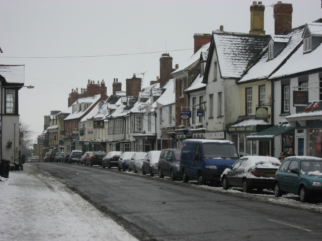 The High Street, Highworth, Wiltshire The photograph shows the south side of the High Street